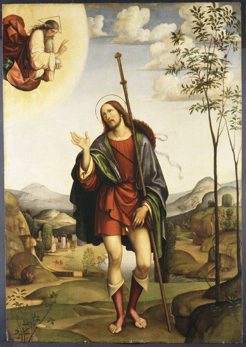 Painting, altarpiece; Paintings